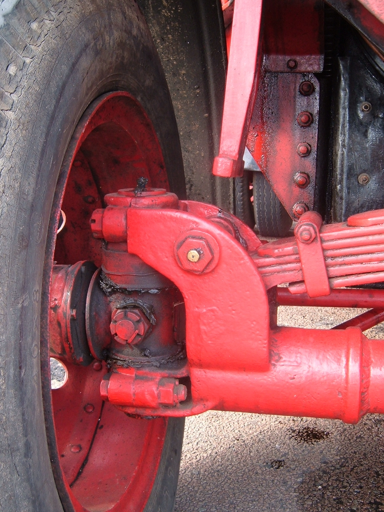 This mighty front axle belongs to a Foden "overtype" steam waggon. I must say that the thought of over 40 tons of truck being controlled by only two brakes is rather terrifying.